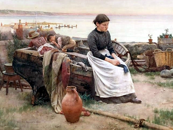 But O For The Touch Of A Vanished Hand